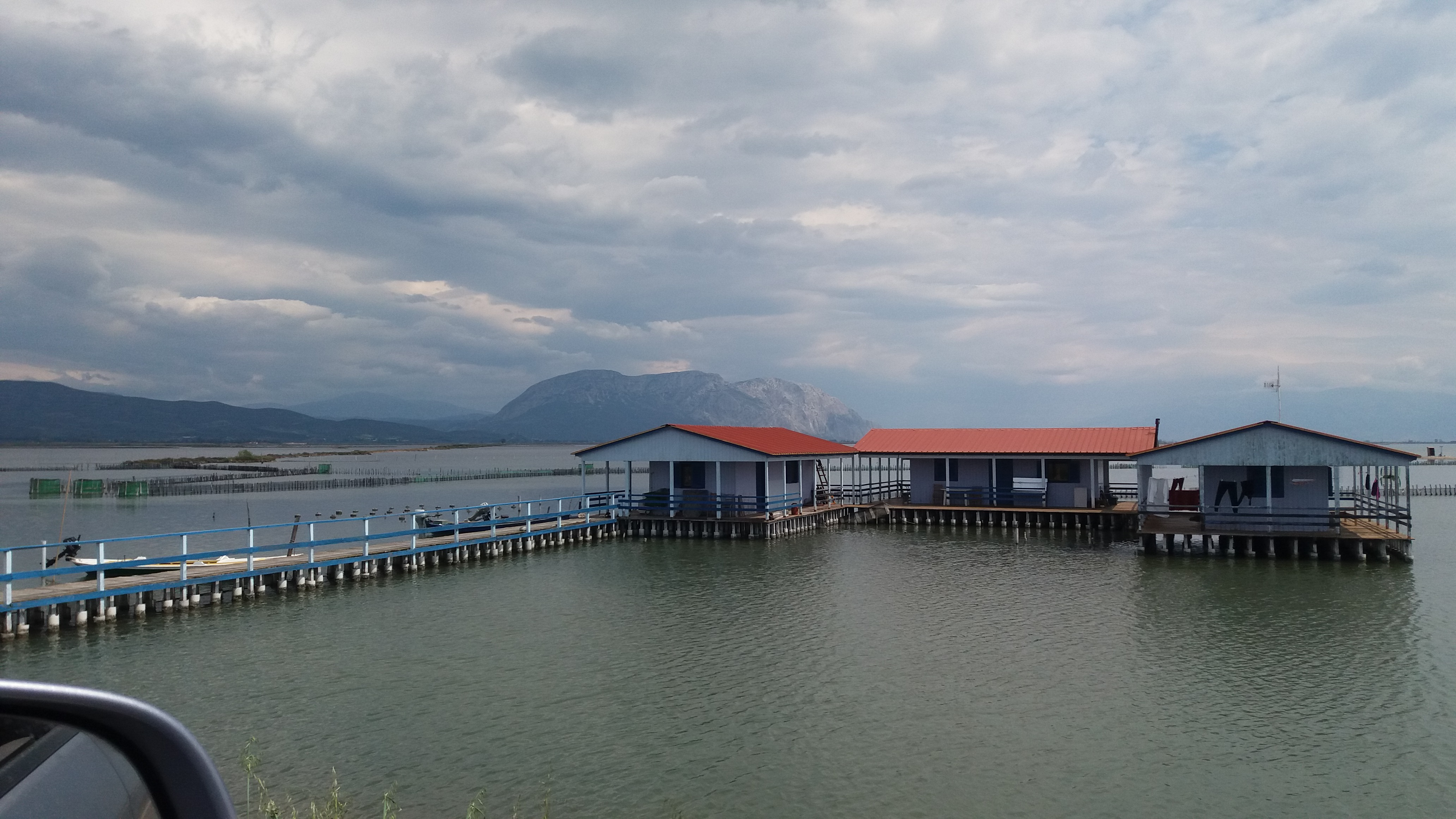 This is a photography of Natura 2000 protected area with ID GR2310001